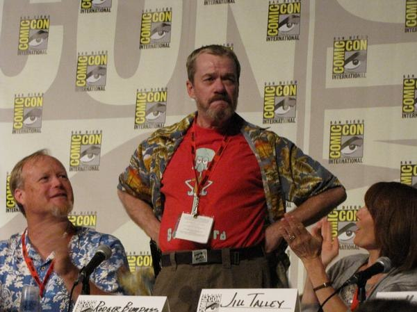 American voice actor Rodger Bumpass standing at the SpongeBob SquarePants panel during the 2009 San Diego Comic-Con